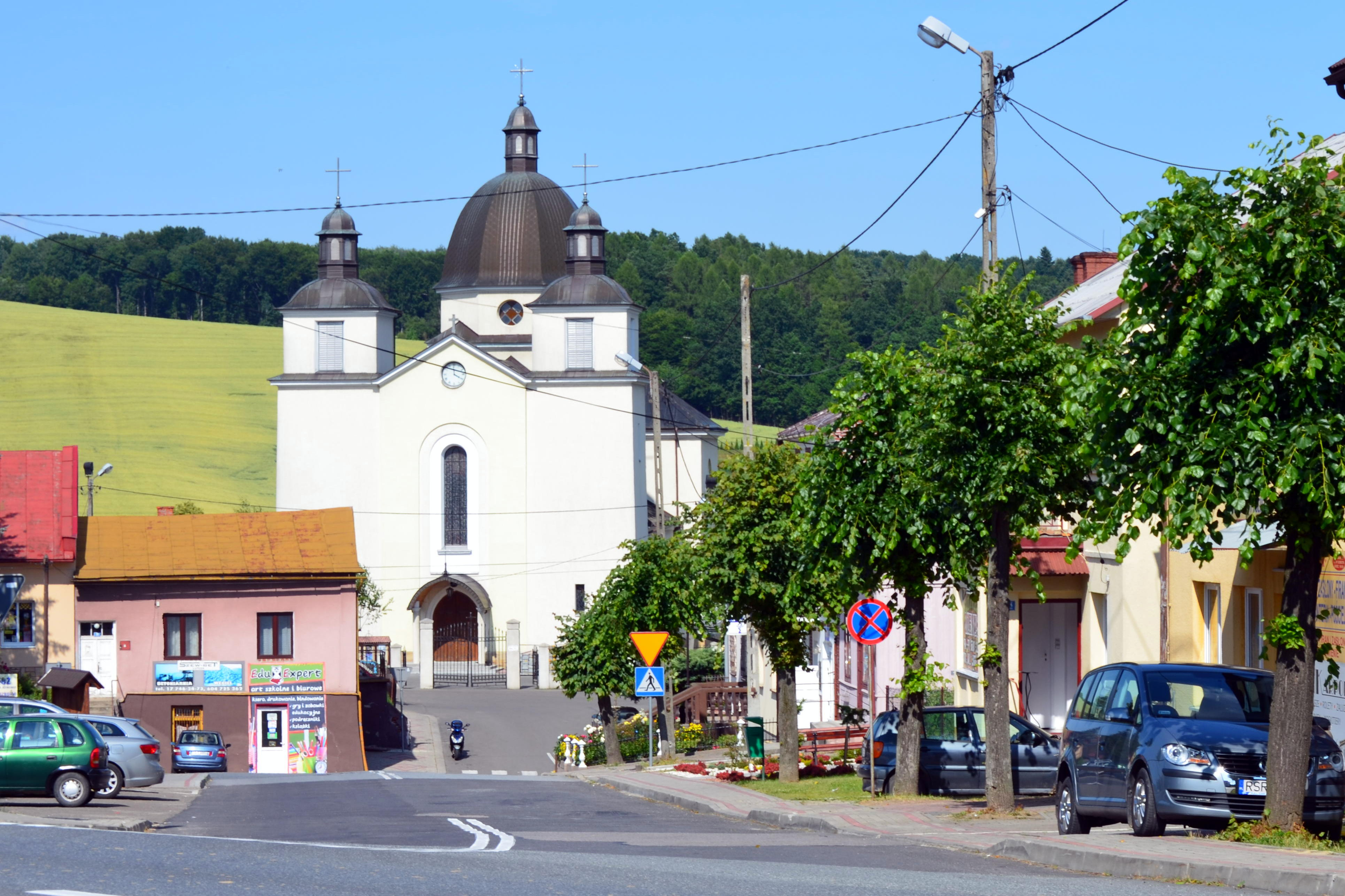 02014 Heilig Kreuz Kirche - Niebylec